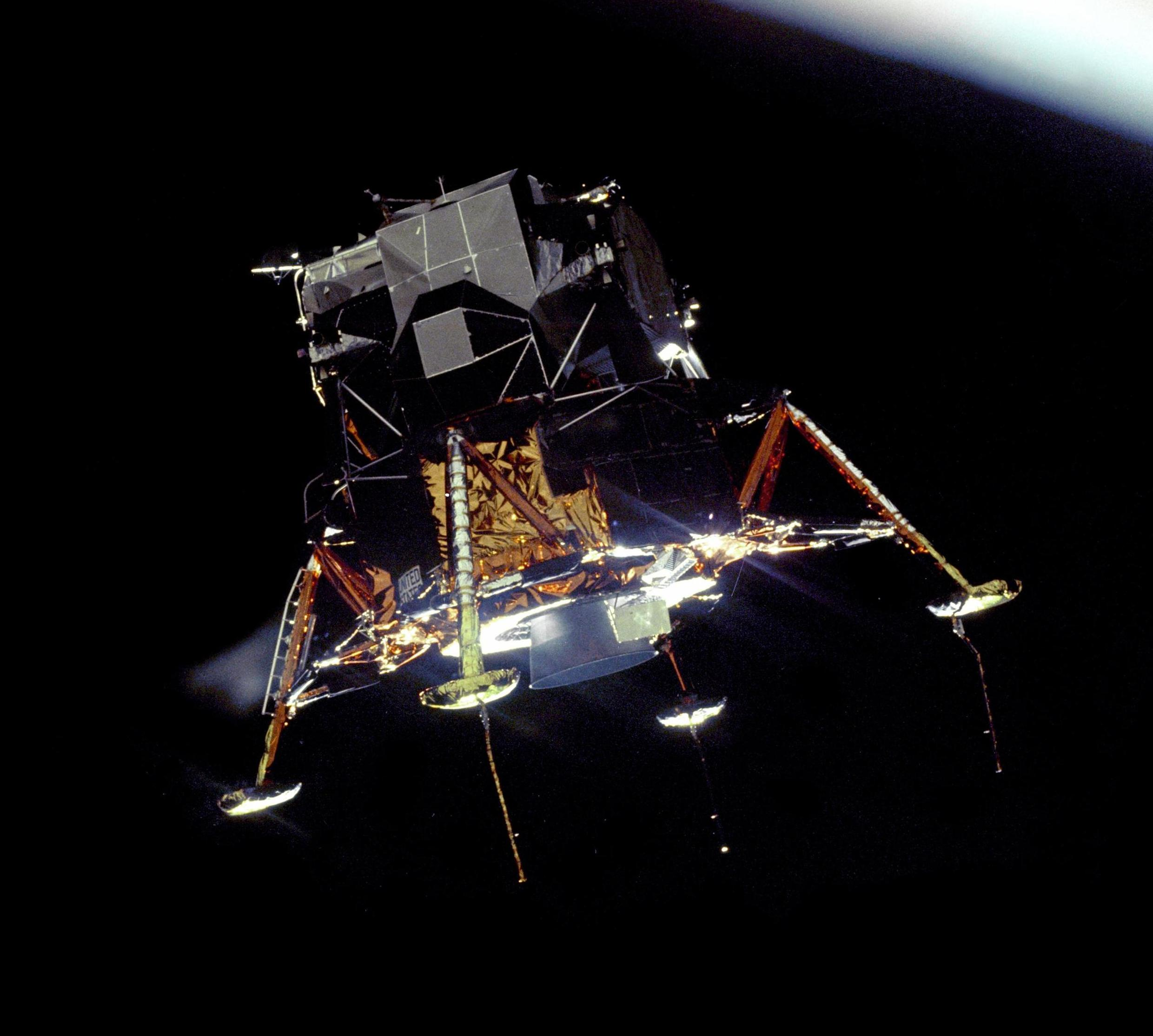 The Apollo 11 Lunar Module Eagle, in a landing configuration was photographed in lunar orbit from the Command and Service Module Columbia. Inside the module were Commander Neil A. Armstrong and Lunar Module Pilot Buzz Aldrin. The long rod-like protrusions under the landing pods are lunar surface sensing probes. Upon contact with the lunar surface, the probes sent a signal to the crew to shut down the descent engine.